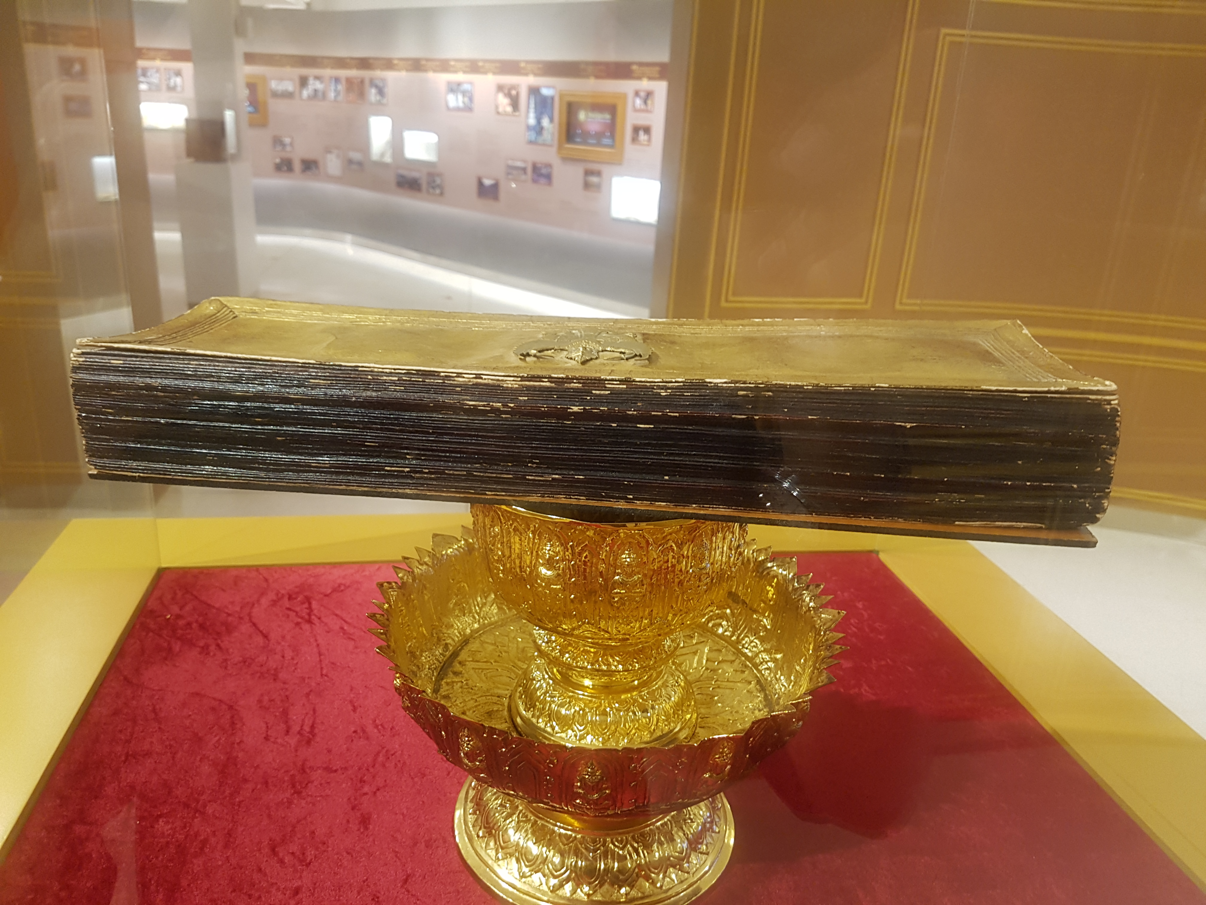 The Constitution of the Kingdom of Siam 1932, the first constitution of Thailand, was made in three copies handwritten on traditional folding books. This is one of those original copies, displayed at the Thai Parliament Museum housed by the Parliament House of Thailand in Bangkok. The other two copies are kept at the Cabinet Secretariat and the Office of His Majesty's Principal Private Secretary.